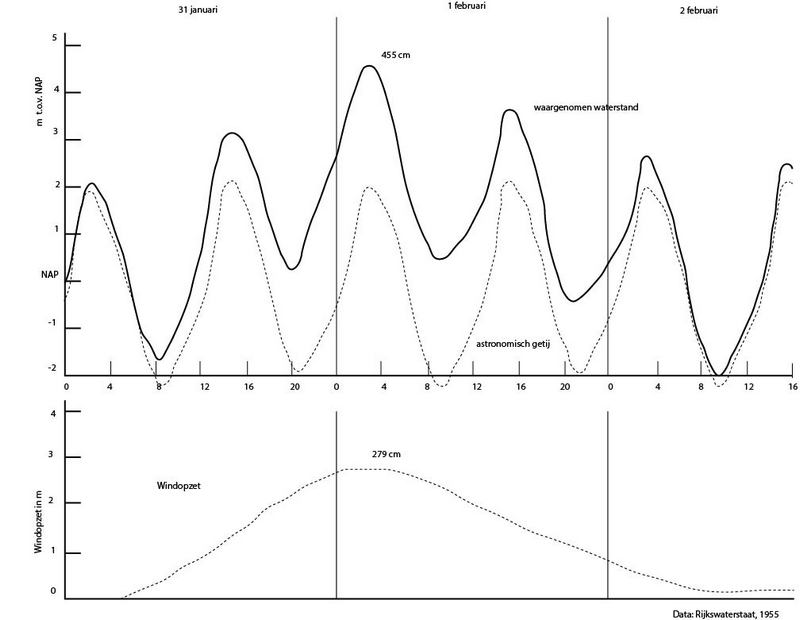 Observation of the water level and the astronomical tide in Vlissingen during the surge of 1953. Subtraction of both gives the surge level